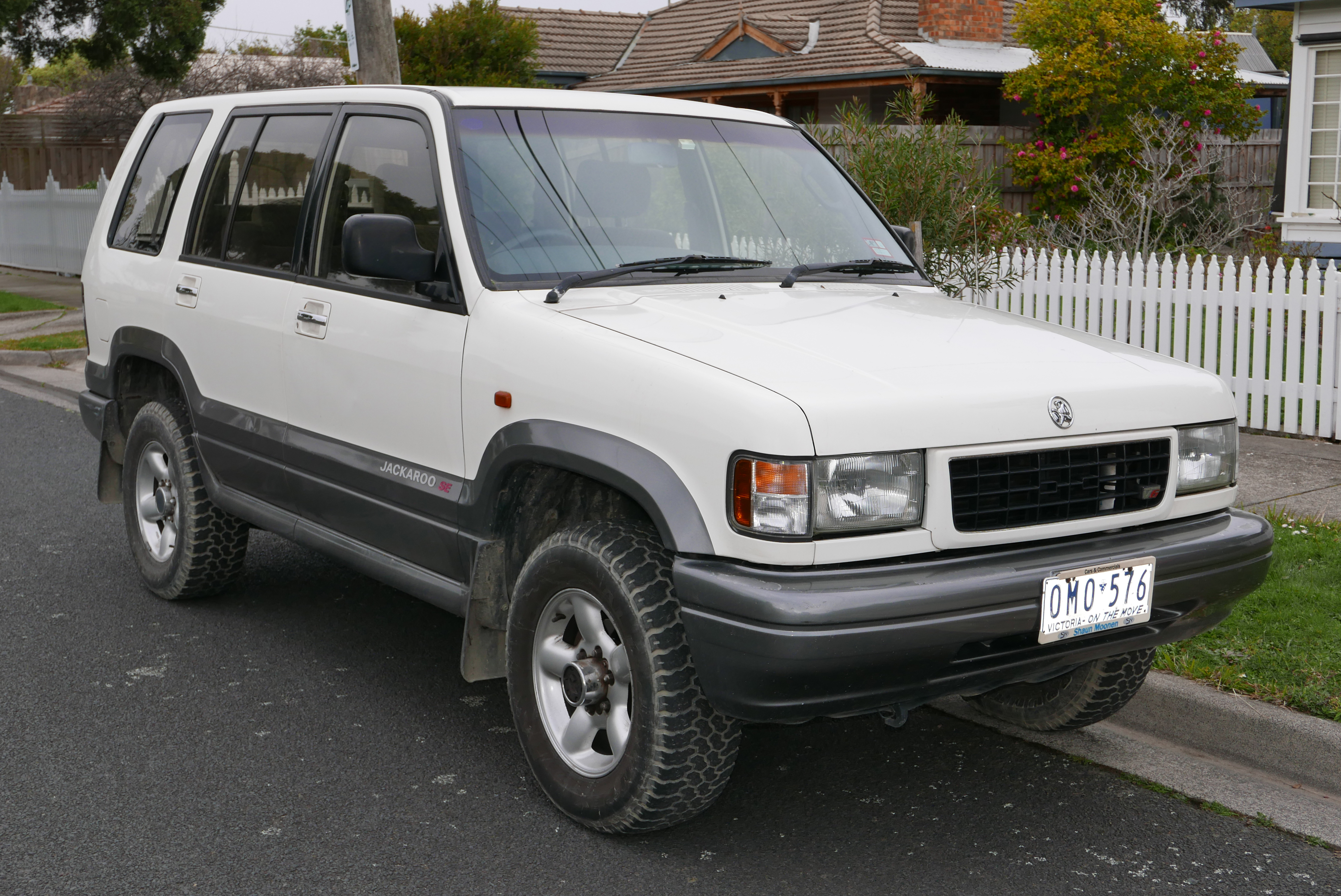 1997 Holden Jackaroo (UBS) SE 3.2 5-door wagon. Photographed in Blackburn, Victoria, Australia. Vehicle registration enquiry results Jurisdiction Victoria Registration OMO576 Chassis code JACUBS25GV7104435 Engine code 531060 Compliance date 1997-08 Year of manufacture 1997